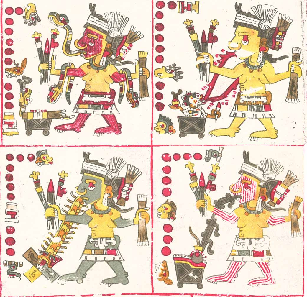 A drawing of Cihuateteo, deities described in the Codex Borgia